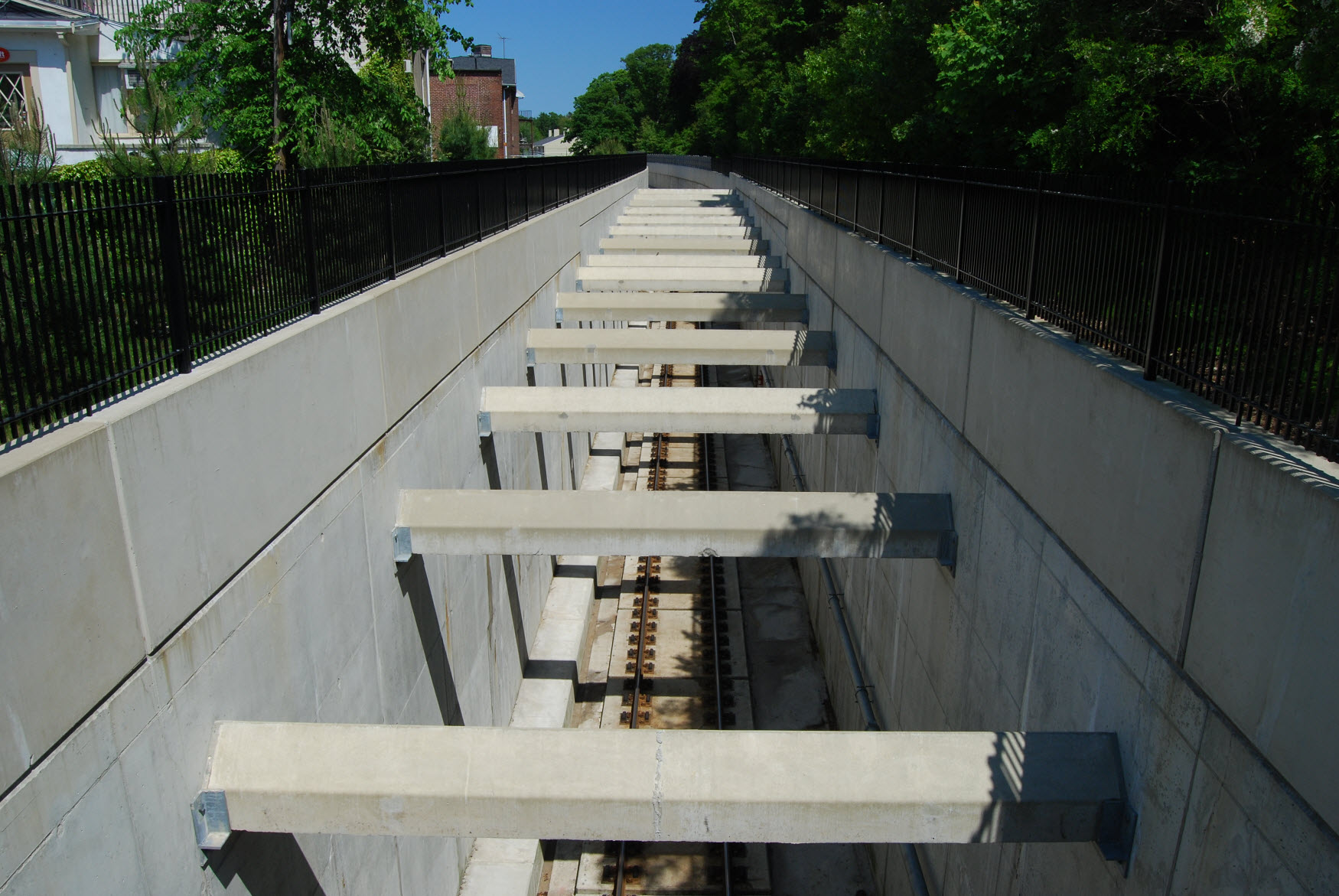 West side of the "Hingham Trench" on the MBTA Greenbush Line in Hingham, Massachusetts